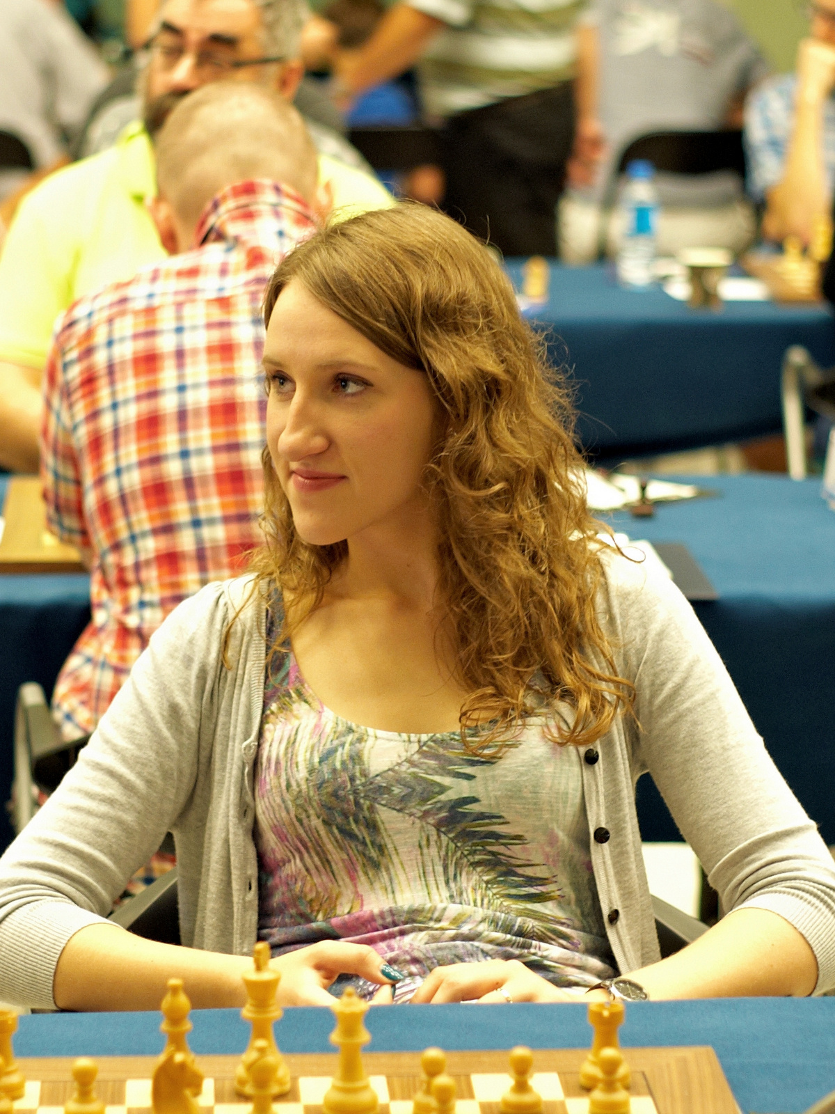 WFM Anna Warakomska, MetLife Warsaw Najdorf Chess Festival 2014.